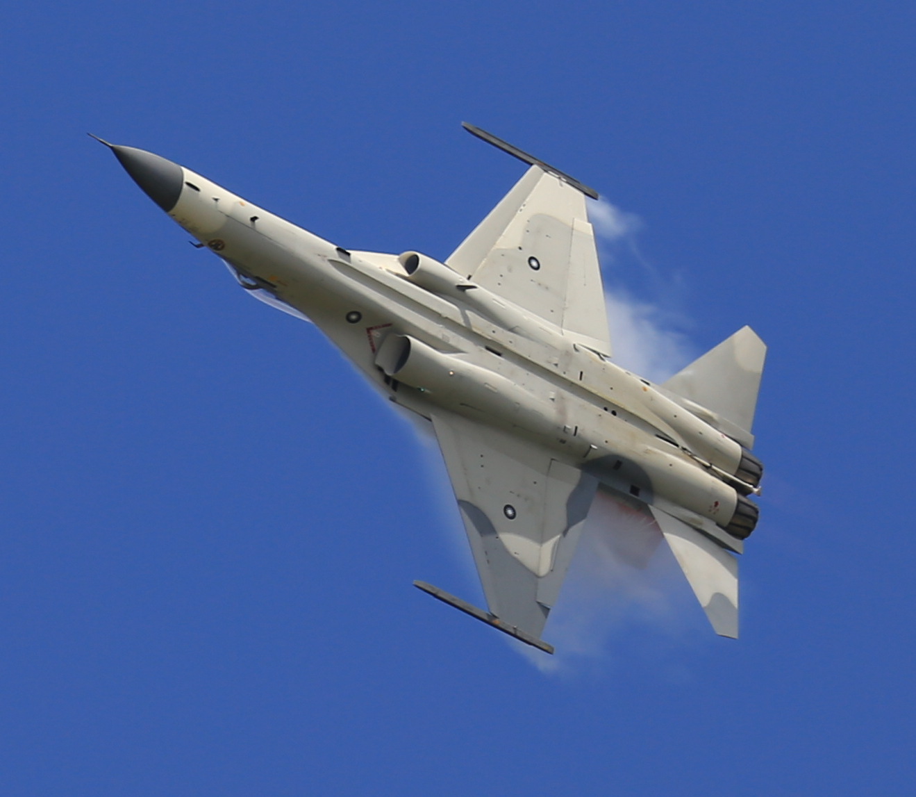 AIDC F-CK-1 Ching-kuo in flight Taiwan Taoyuan International Airport